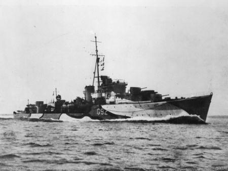 Starboard side view of the Royal Australian Navy destroyer HMAS Quickmatch. She is painted in an Admiralty intermediate distruptive type camoflage scheme.